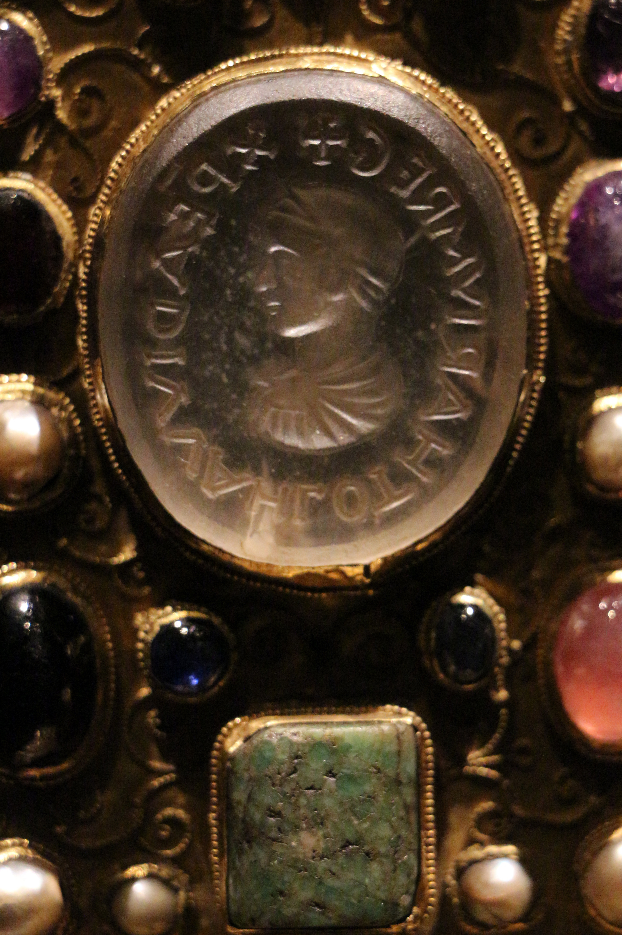 Domschatz, Aachen